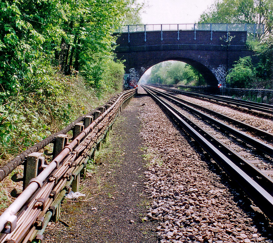 A Modern Cess located on the London Underground - the cess being the area between the edge of the ballast and the cable poles on the left.